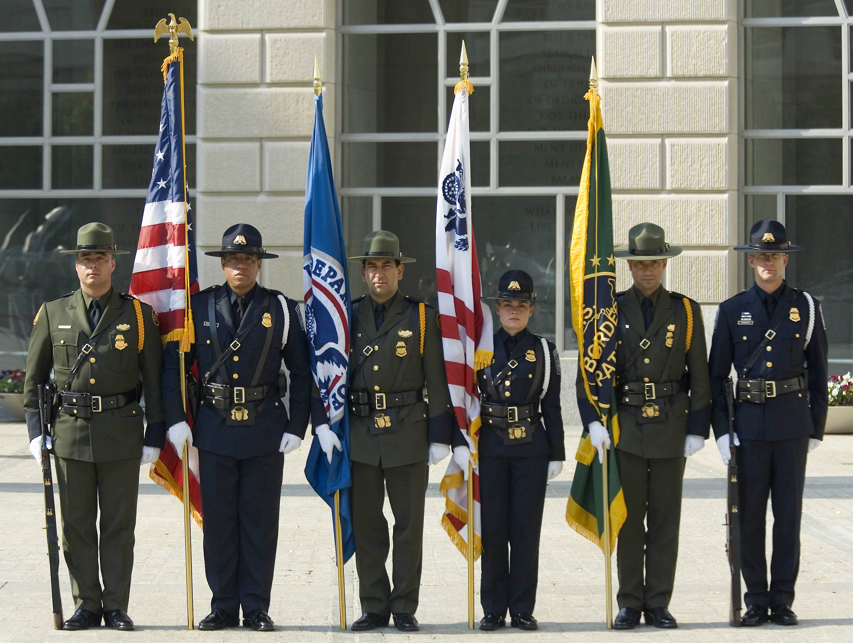 U.S. Customs and Border Protection Original caption: CBP Officers [blue uniforms] and Border Patrol Agents [green uniforms] pay tribute to fellow fallen officers during a Law Enforcement memorial service in Washington D.C.